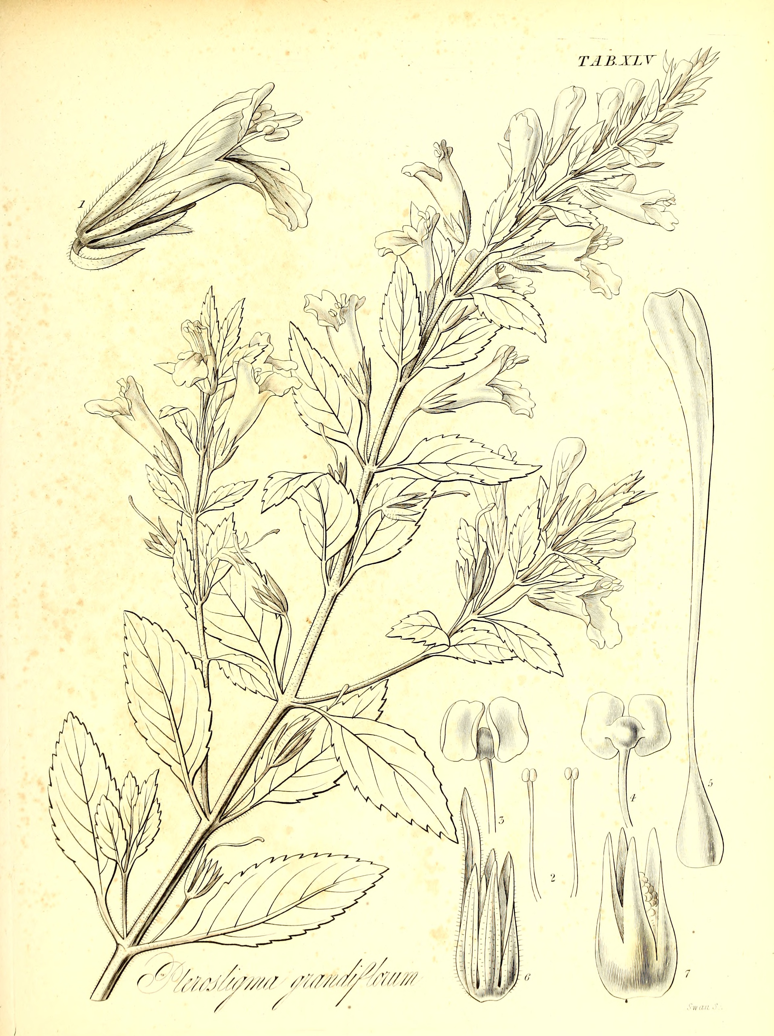 Title: The botany of Captain Beechey's voyage; comprising an acount of the plants collected by Messrs. Lay and Collie, and other officers of the expedition, during the voyage to the Pacific and Behring's Strait, performed in His Majesty's ship Blossom, under the command of Captain F. W. Beechey ... in the years 1825, 26, 27, and 28 Year: 1841 (1840s) Authors: Hooker, William Jackson, Sir, 1785-1865; Arnott, George Arnott Walker, 1799-1868, joint author; Beechey, Frederick William, 1796-1856 Subjects: Blossom (Ship); Botany; Botany; Botany Publisher: London, H. G. Bohn Text Appearing Before Image: ' Text Appearing After Image: '